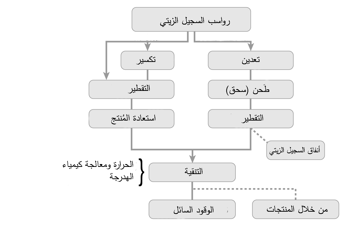 Oil shale process diagram, some details removed by uploader